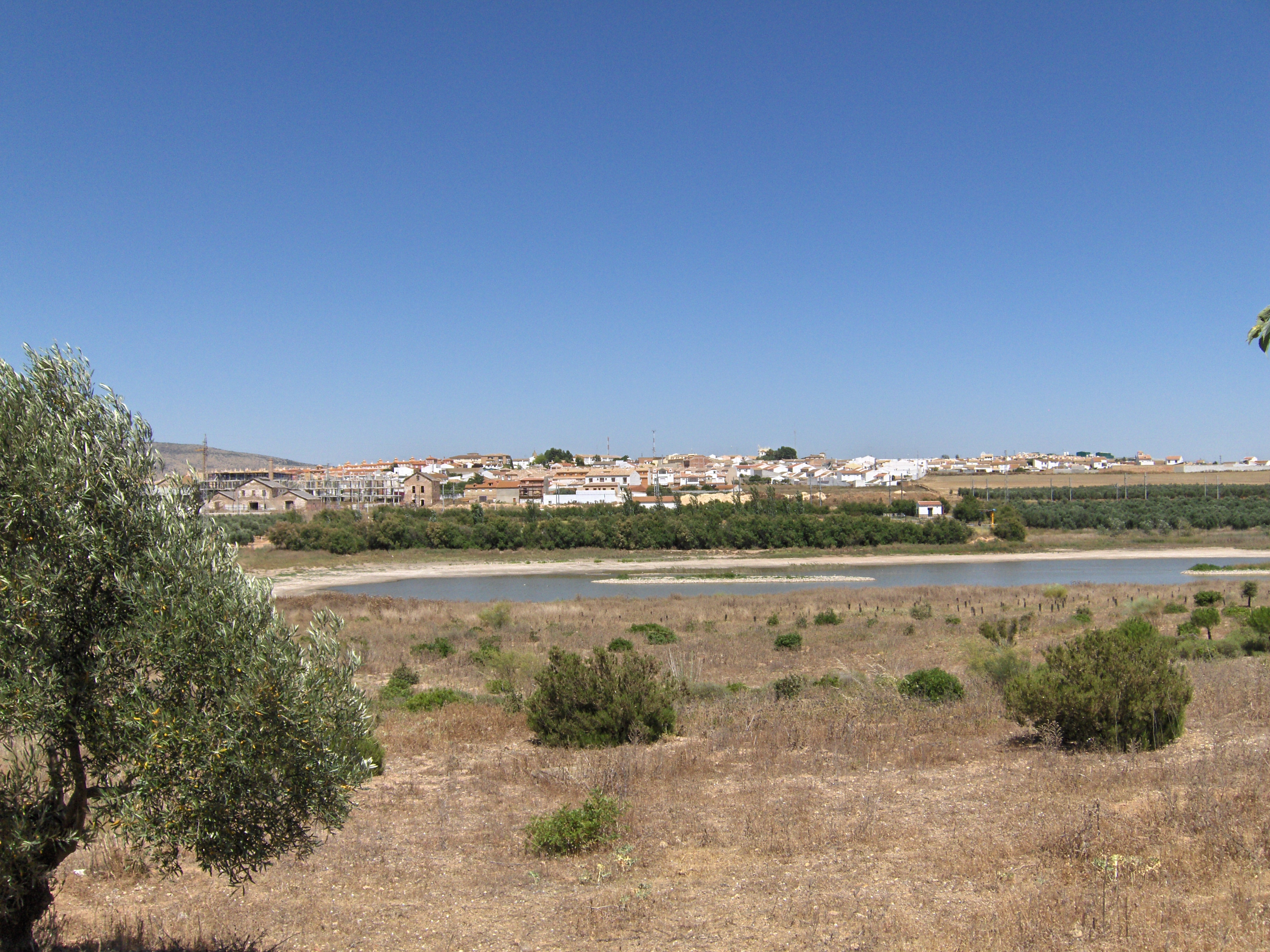 View of Fuente de Piedra